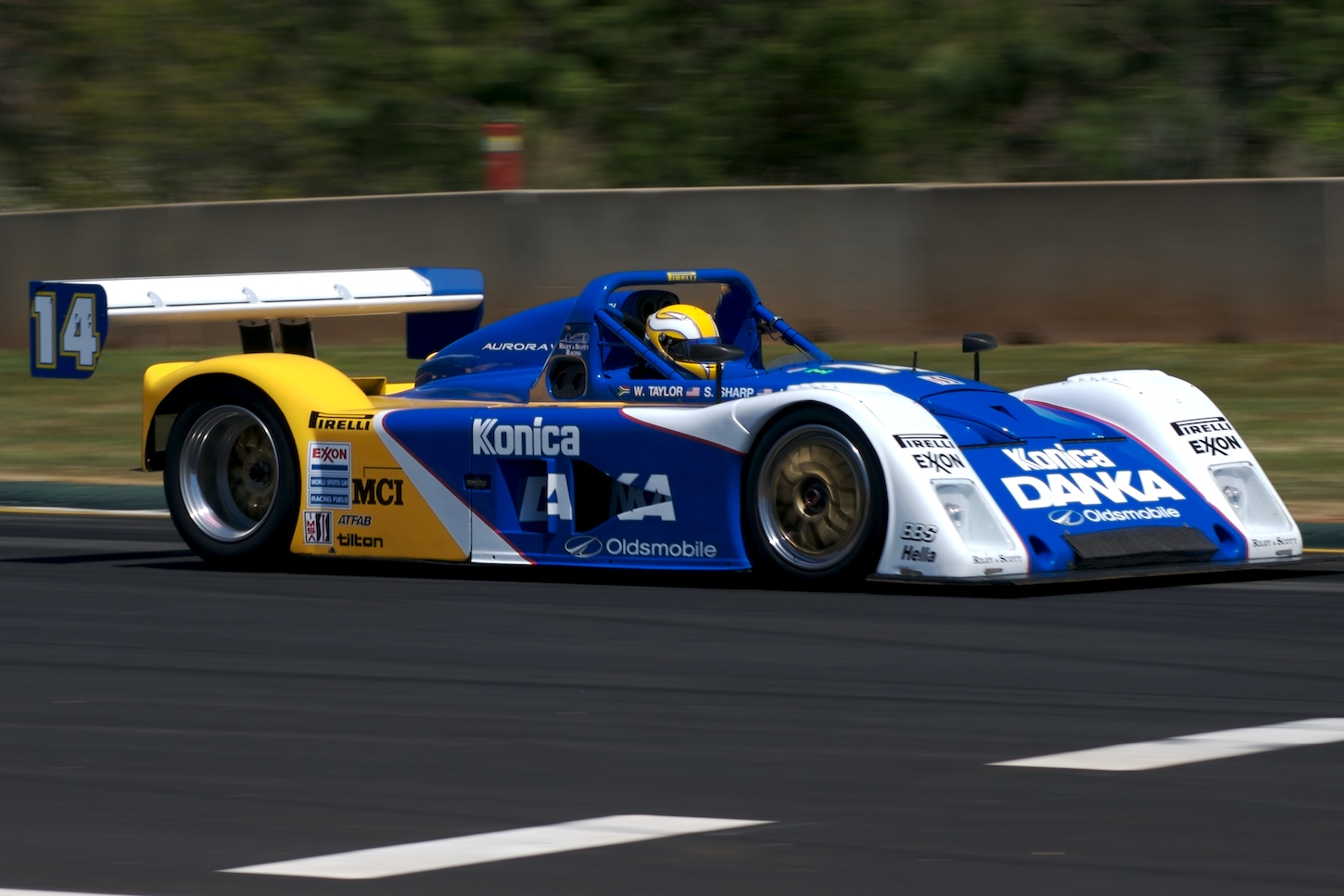 A Riley & Scott Mk III at Road Atlanta